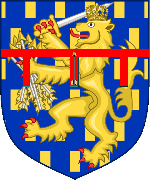 Arms of Prince Frederick of the Netherlands (1797–1881) from Rietstap and Jiri Louda, based on work of Sodacan and Katepanomegas.